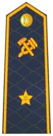 Ukrainian Railways Ranks